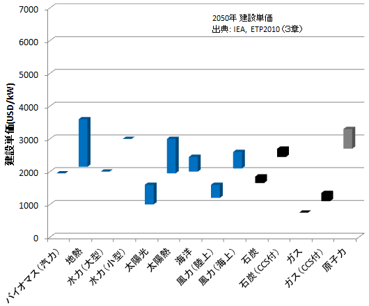 Investment Cost of Electricity Generation Plants (2050) Data source: IEA, Energy Technology Perspectives 2010, Chapter 3, Table 3.2 - 3.5 In Japanese